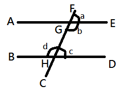 Some angles.